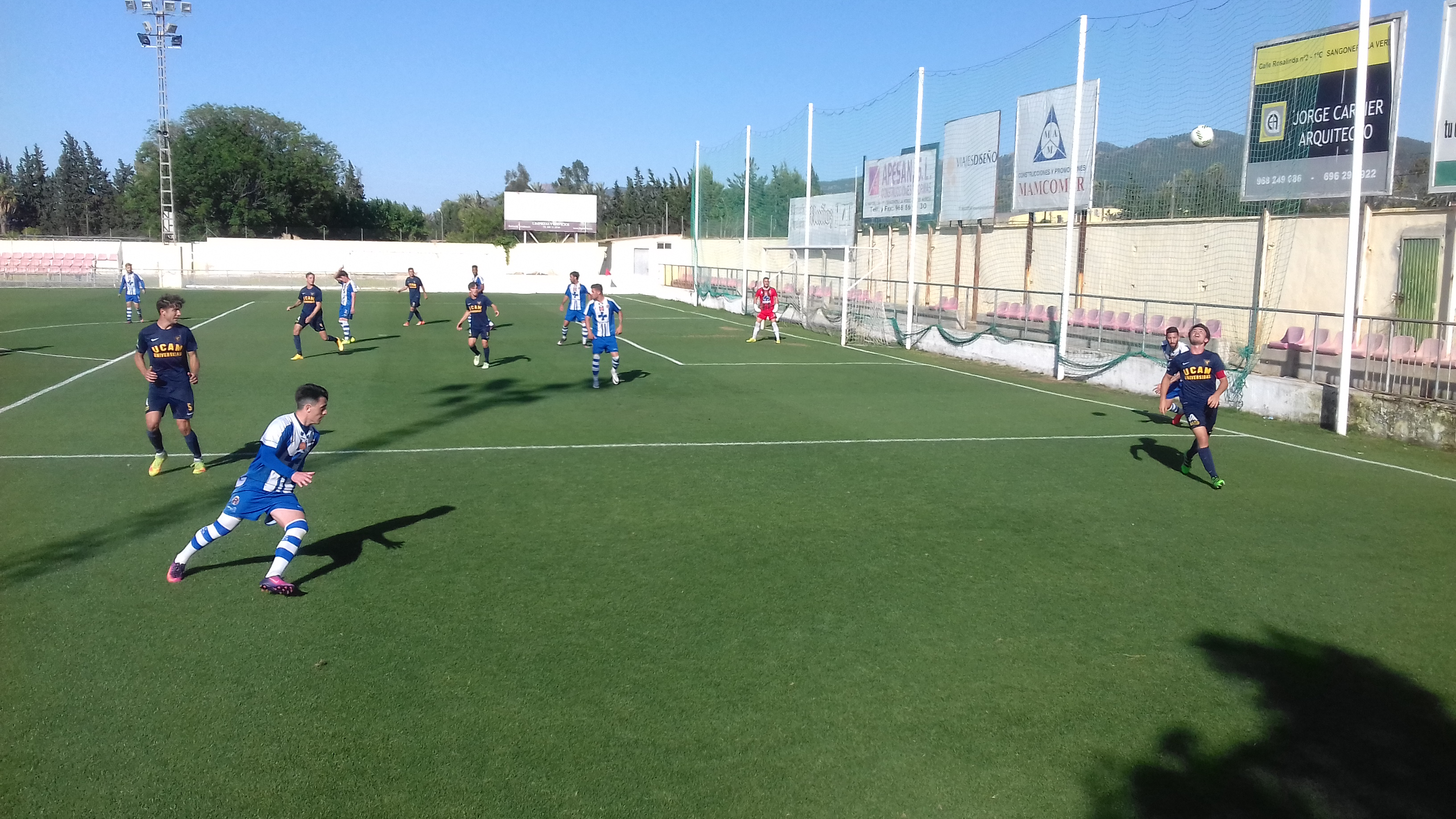 UCAM Murcia CF B - CF Lorca Deportiva (14-05-2017)